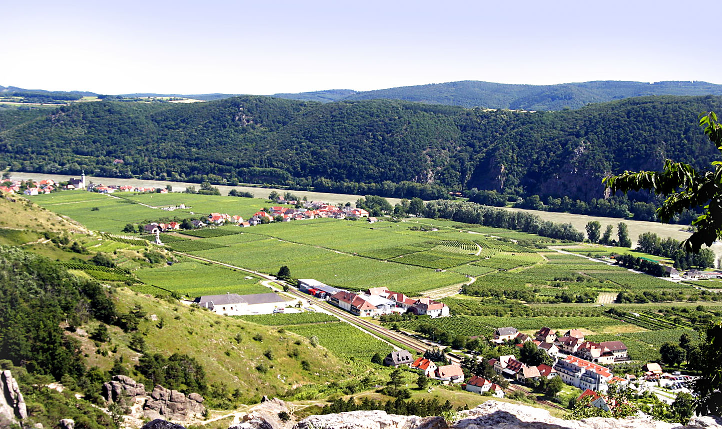 View of Dürnstein from Dürrstein Castle. Dürnstein is a small town on the Danube river in the Krems-Land district, in the Austrian state of Lower Austria. It is one of the most visited tourist destinations in the Wachau region and also a well-known wine growing area.